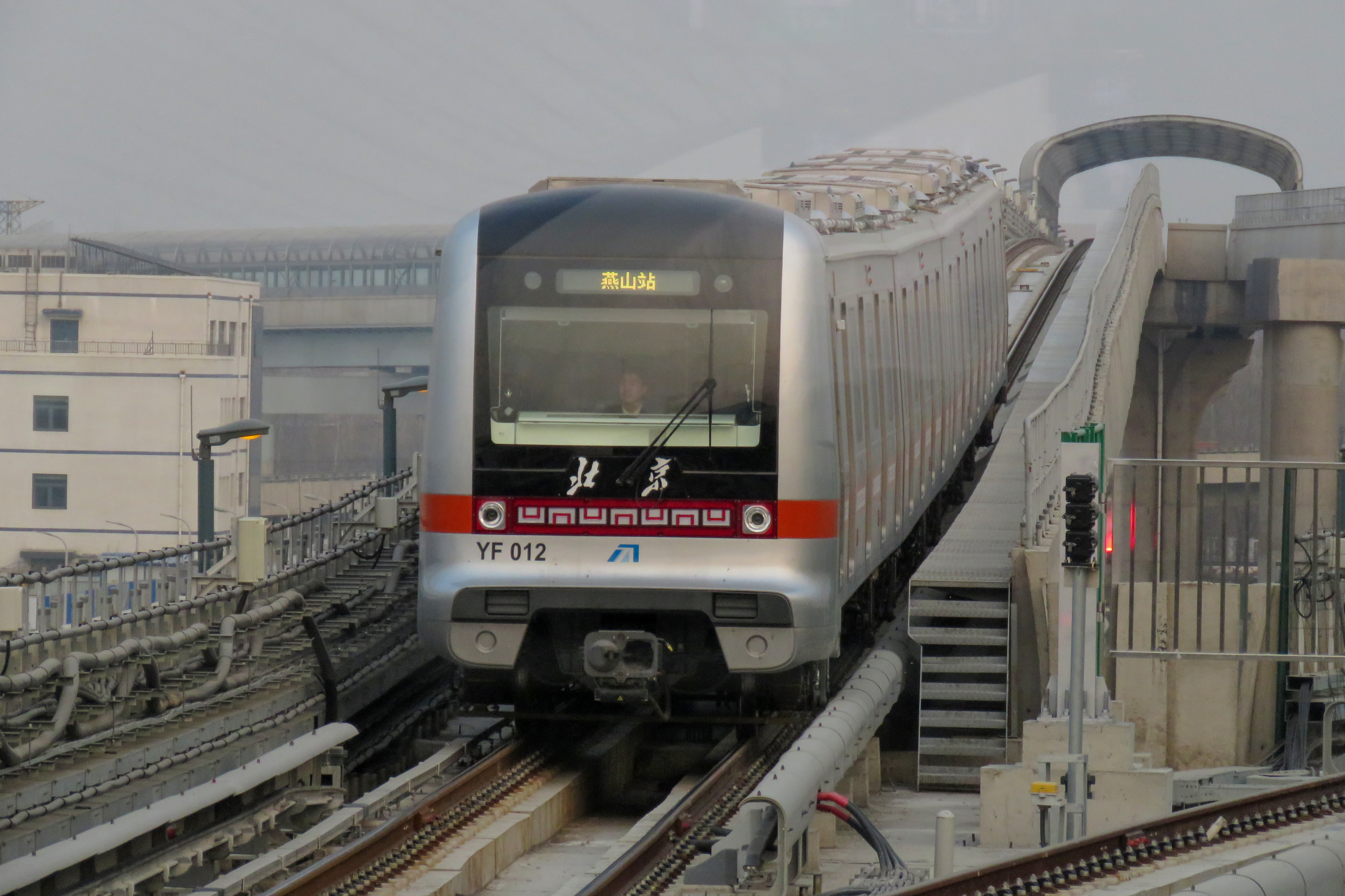 Late and hazy...